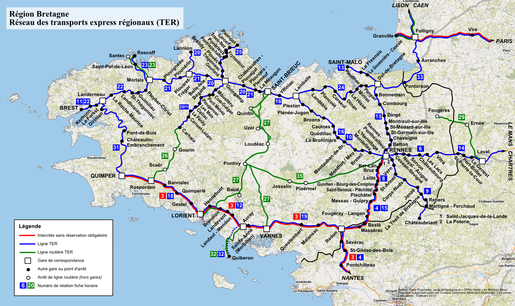 Region Bretagne, regional transport network (TER)